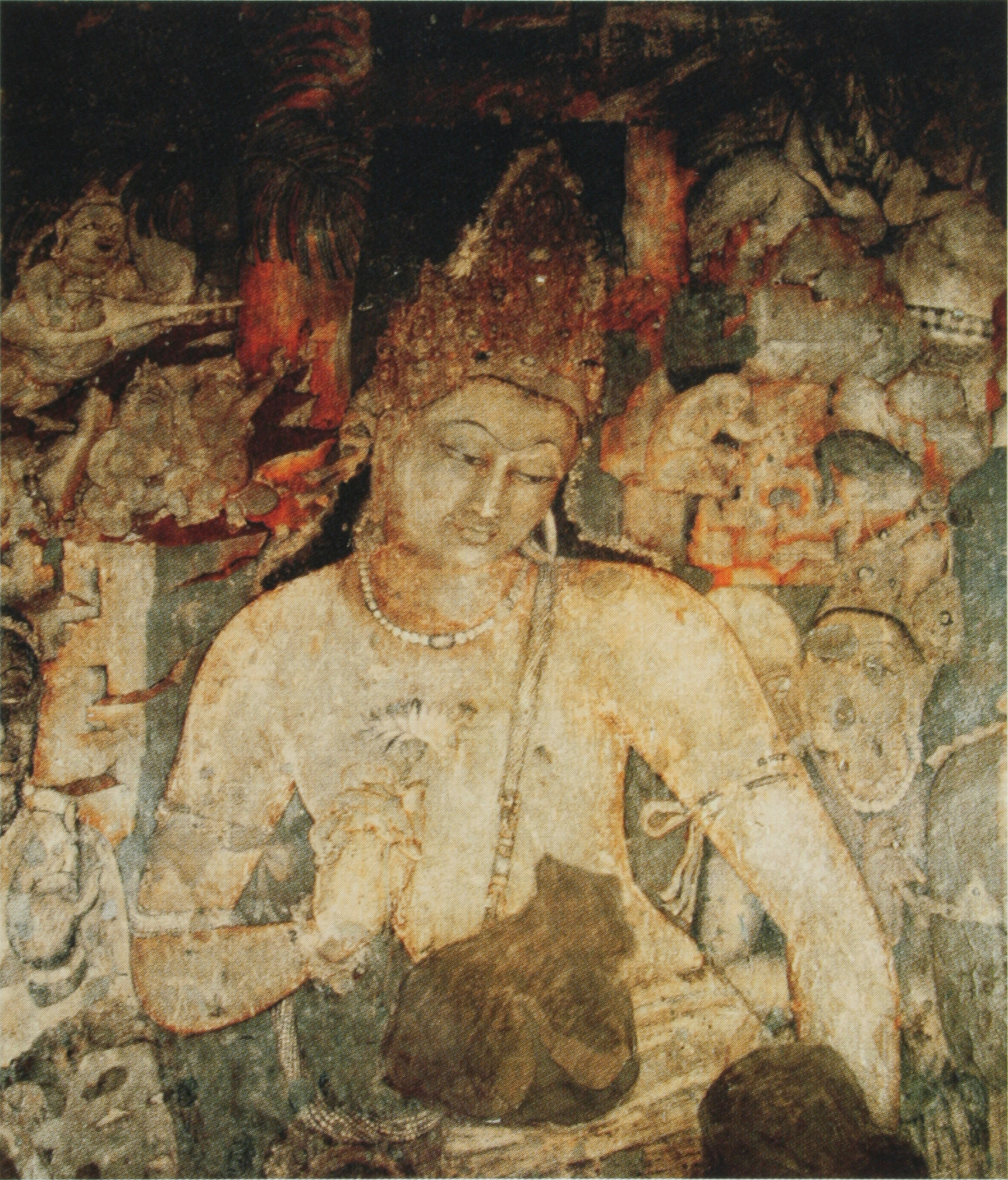 Bodhisattva Padmapani, cave 1, Ajanta, India. Painting on stone wall. Height: 1.2 m.